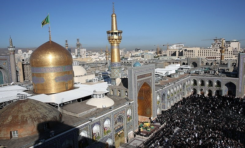 Ali al-Ridha, Shia Muslims' eight Imam's birthday, Imam Reza Shrine, Mashhad, Iran